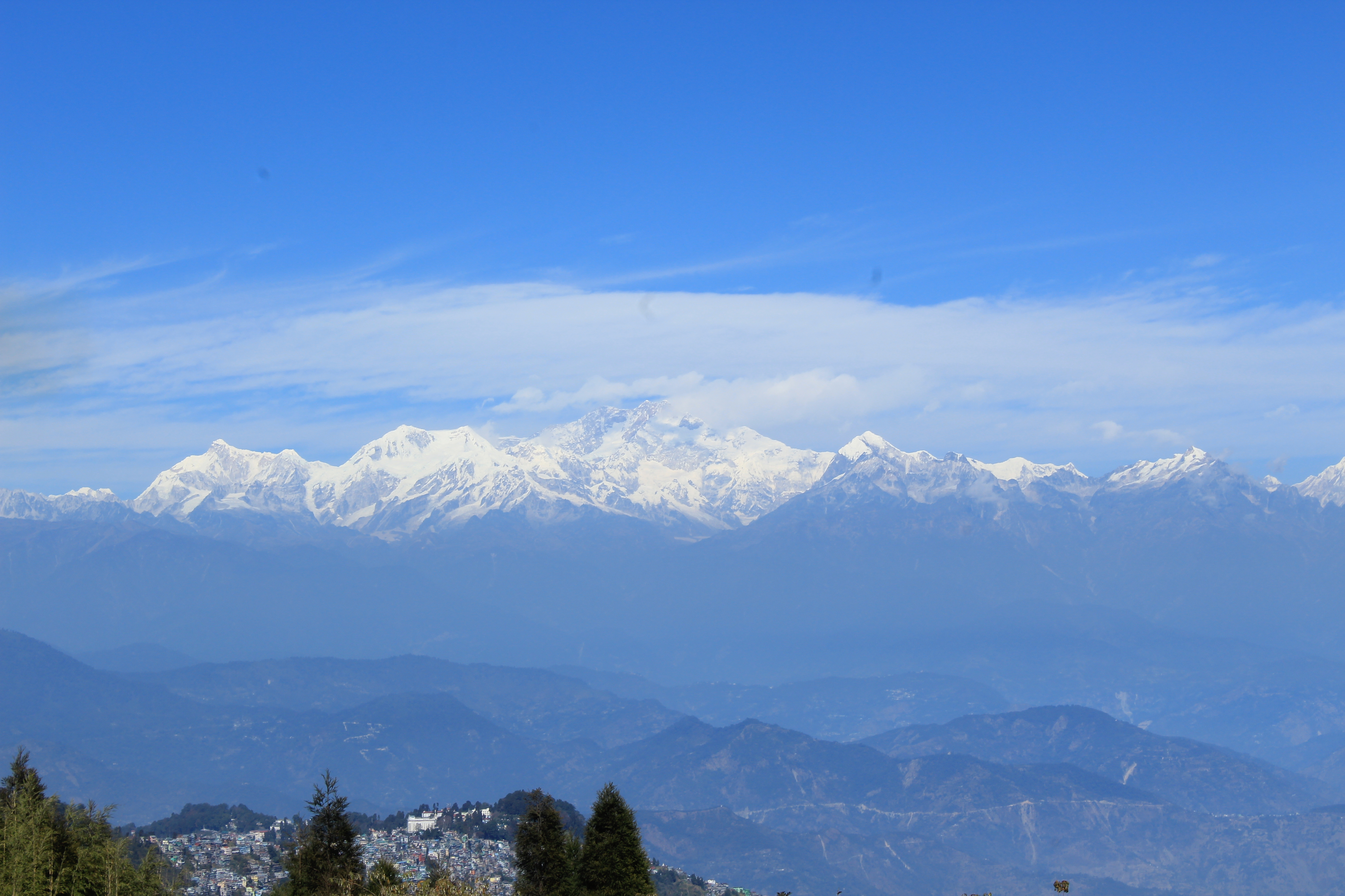 Kangchenjunga as seen from Tiger Hill, Darjeeling, India at midday.